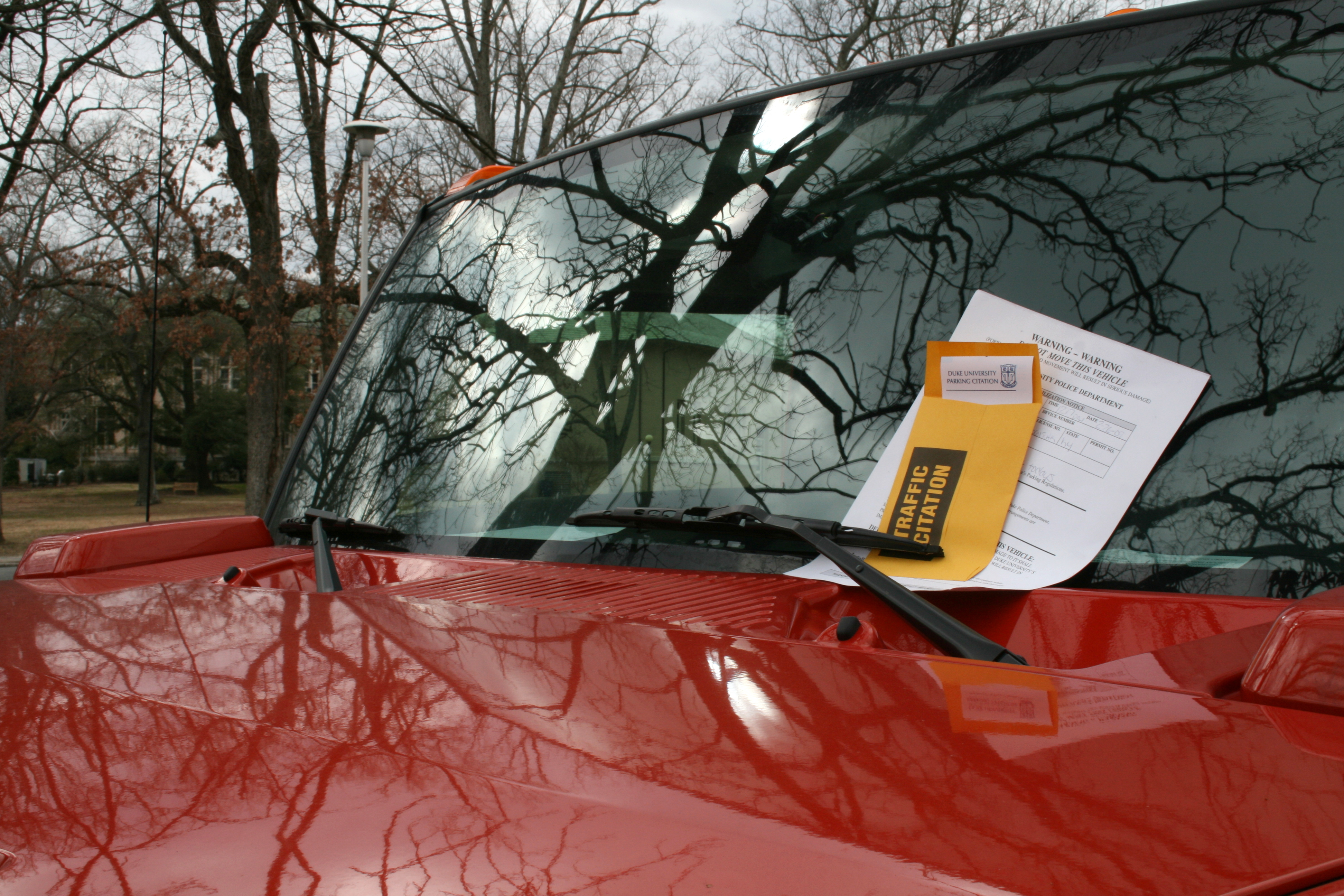 A red Hummer with a parking ticket at Duke University East Campus in Durham, North Carolina.